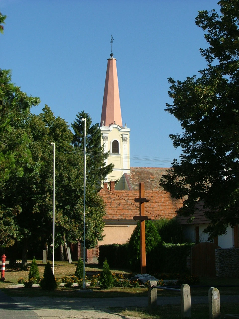 Szilsárkány, millennial double cross, in background the roman catholic churc (national monument) This is a photo of a monument in Hungary, Identifier: 5123